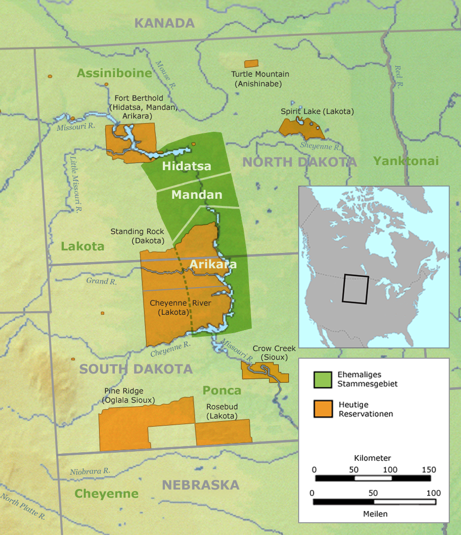 Tribal territory of Hidatsa, Mandan and Arikara